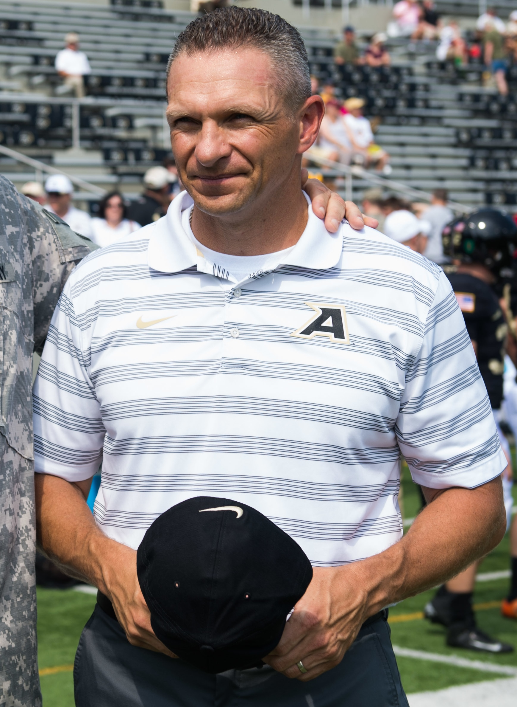 U.S. Army Chief of Staff Gen. Ray Odierno speaks with Army's football head coach Jeff Monken before Army played University at Buffalo in West Point, N.Y., Sept. 6, 2014. (U.S. Army photo by Staff Sgt. Steve Cortez/ Released)